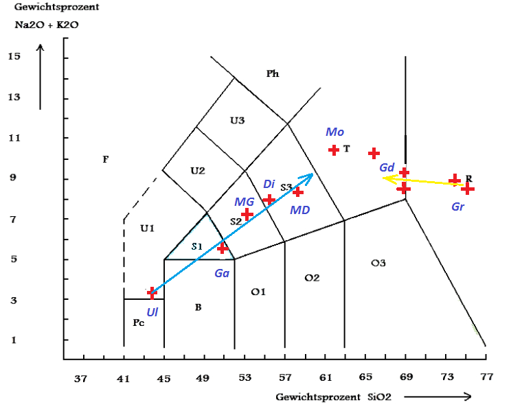 TAS diagram with the plotted compositions of the Karawanken granite pluton. The blue arrow indicates the fractionation of the mafic members, the yellow arrow the fractionation of the felsic members.